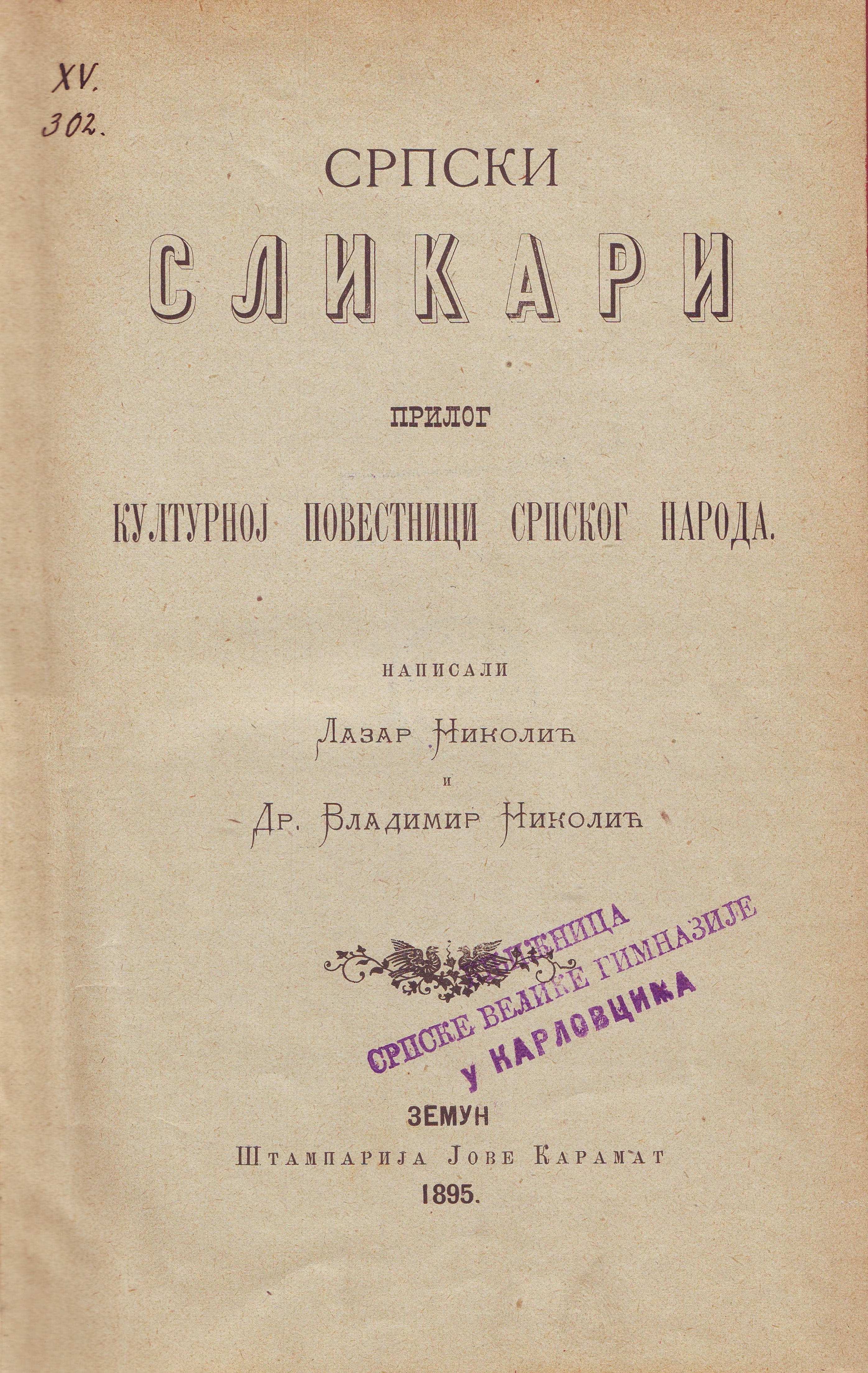 Cover of Srpski slikari Prilog kulturnoj povestnici srpskog naroda (1895) by Lazar Nikolić and dr Vladimir Nikolić. Srpski (latinica): Naslovna strana knjige Srpski slikari Prilog kulturnoj povestnici srpskog naroda (1895) Lazara Nikolića i dr Vladimira Nikolića.